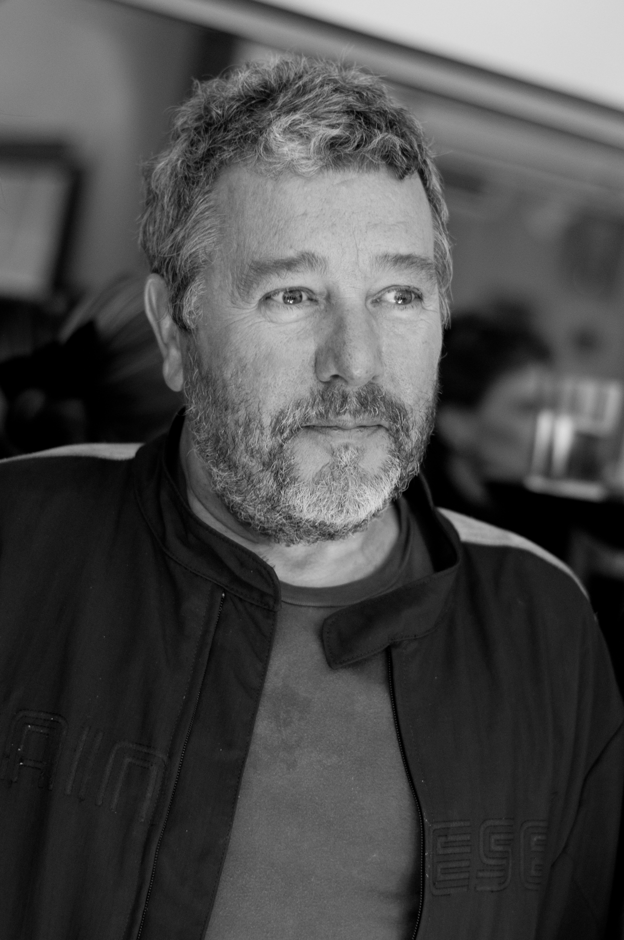 Philippe Starck, Designer in Sao Paulo